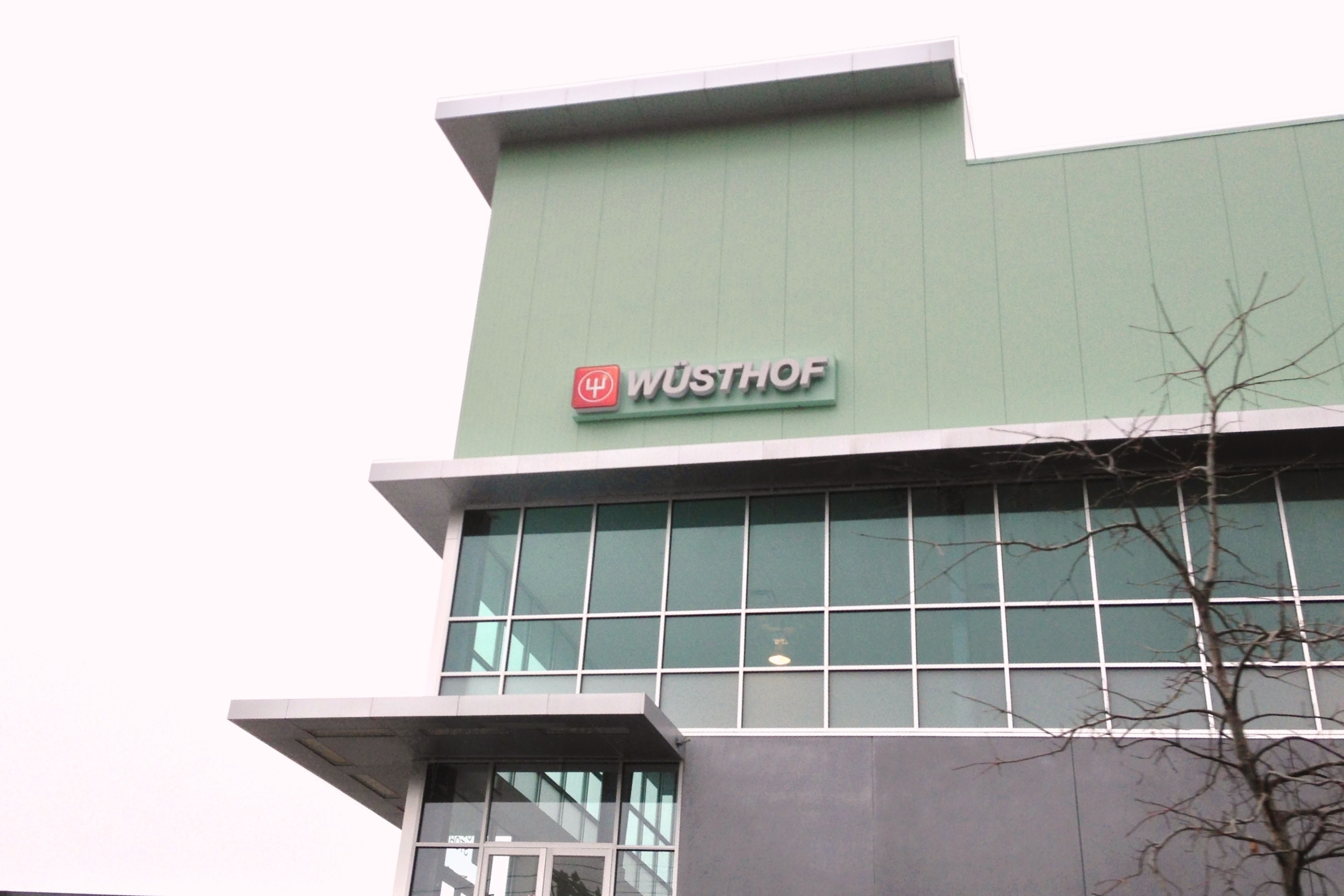 Wusthof, Norwalk, CT, USA - Mar 2013